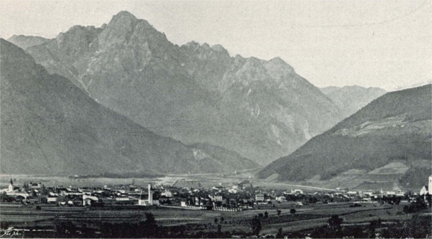 The austrian town (now city) of Lienz in eastern tyrol around 1898